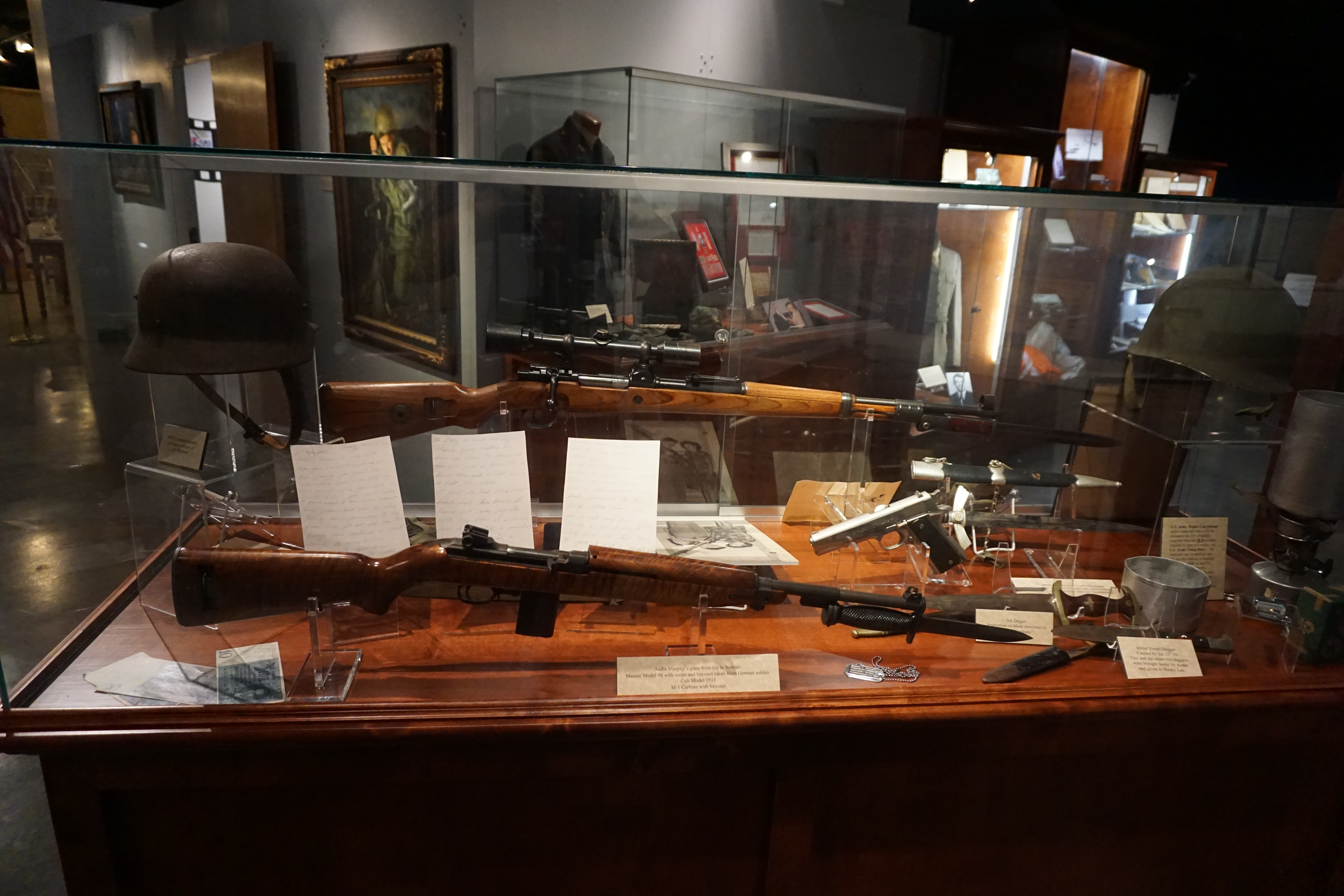 Audie Murphy's Mauser Model 98, Colt Model 1911, and M-1 Carbine at the Audie Murphy American Cotton Museum in Greenville, Texas (United States).